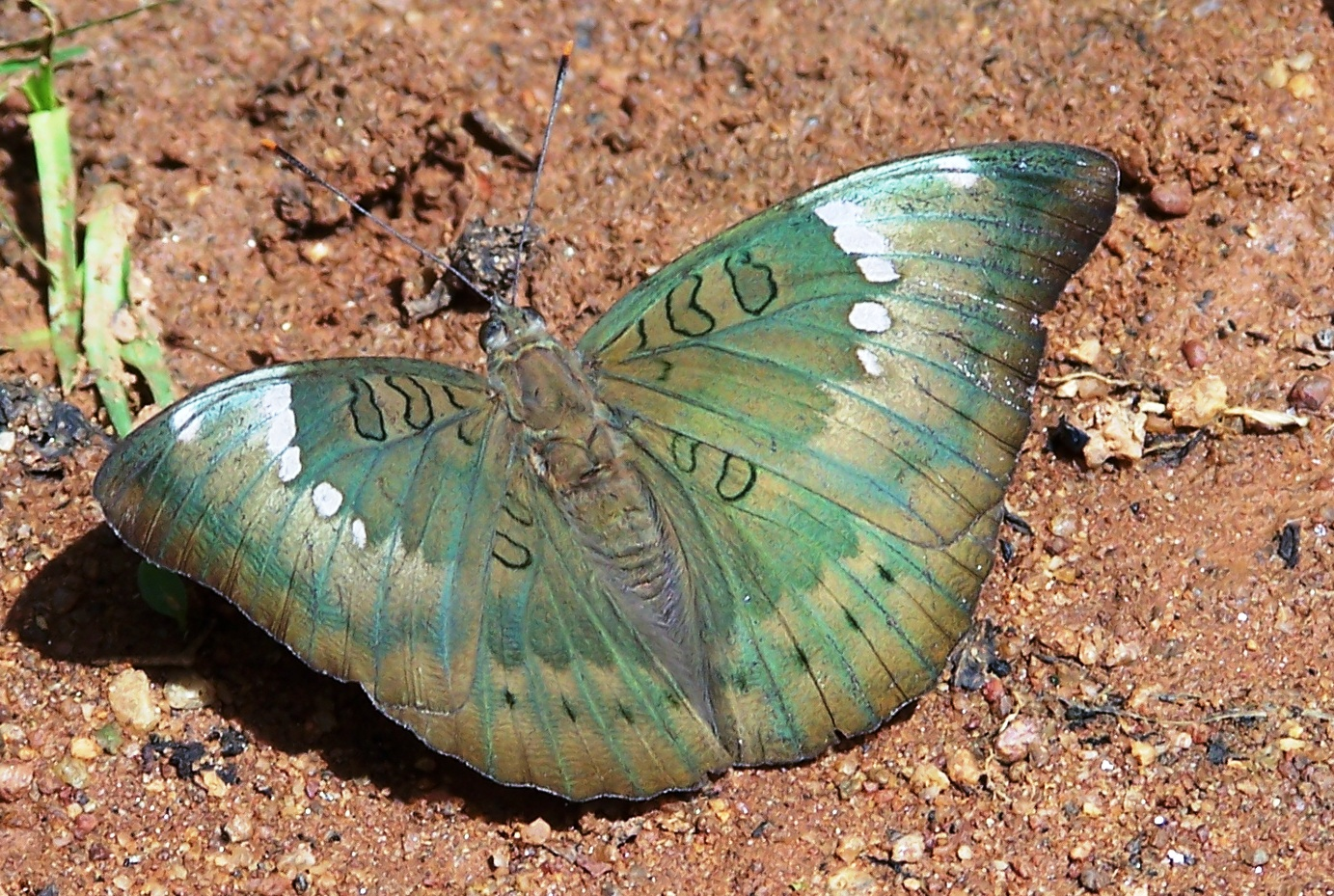 Female, seen at Bangalore, Karnataka